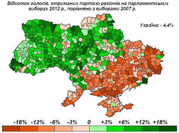 Party of regions results change between 2007 and 2012 elections